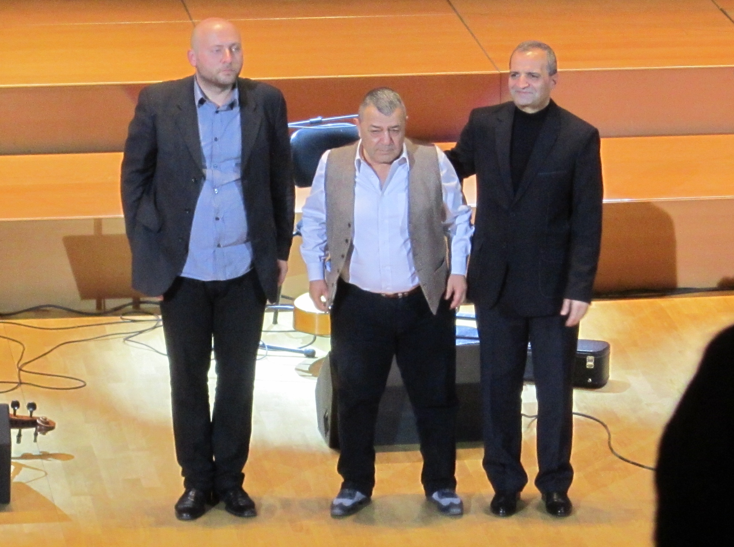 Ruben Hakhverdyan in concert